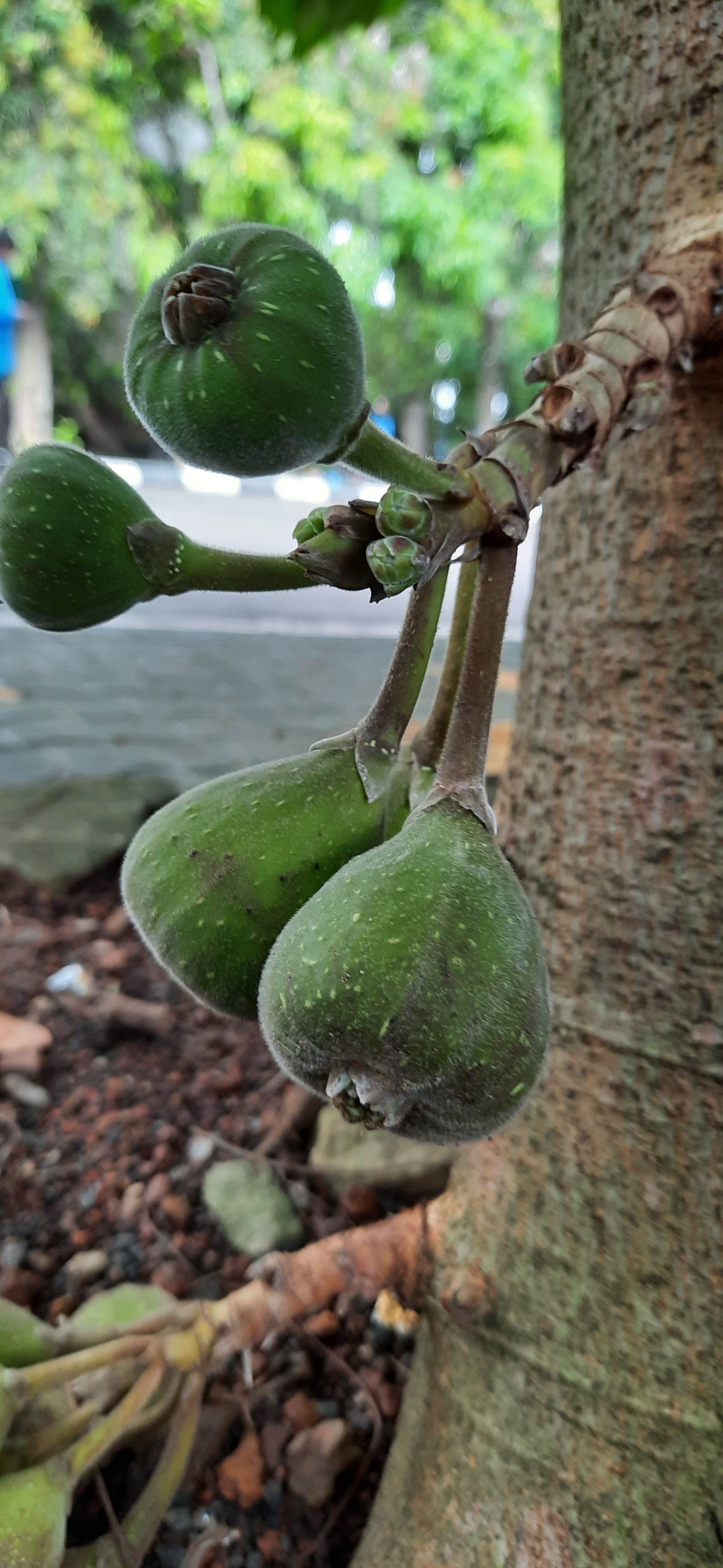 Ficus auriculata fruitAfrikaans: അത്തി കായ്കൾ